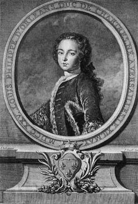 Louis Philippe d'Orléans, Duke of Chartres in May 1735